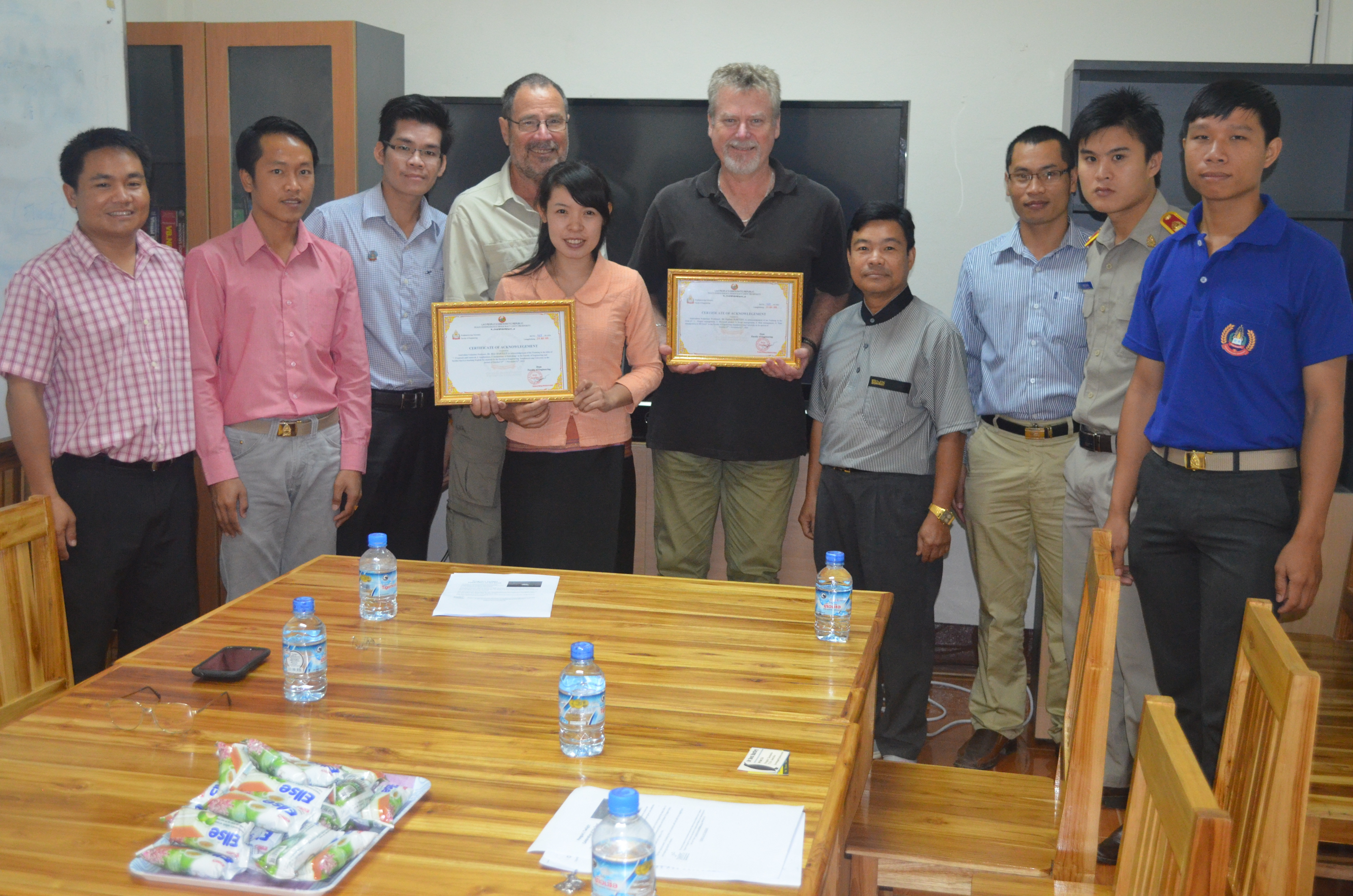 SU opens its doors to unsponsored international volunteers